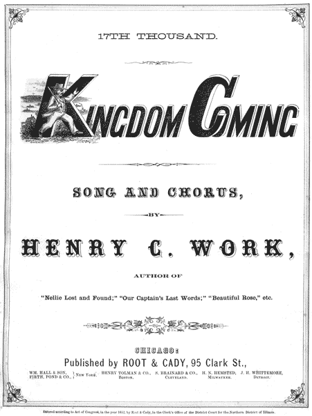 Cover of sheet music for "Kingdom Coming" words and music by Henry Clay Work, Chicago: Root & Cady, 1862